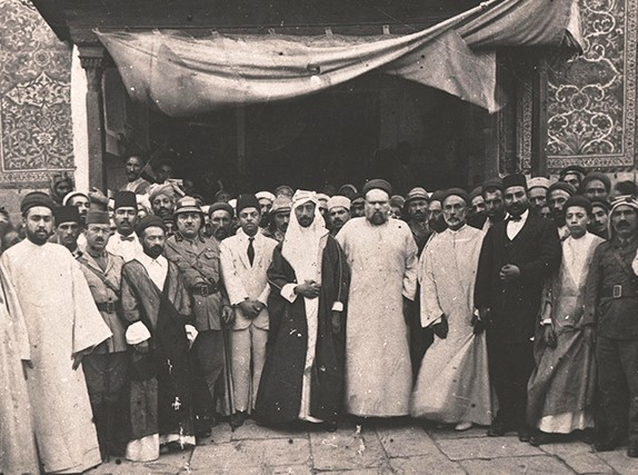 King Faisal I welcomed by Murtadha Dhiya al-Din in Abbas Shrine